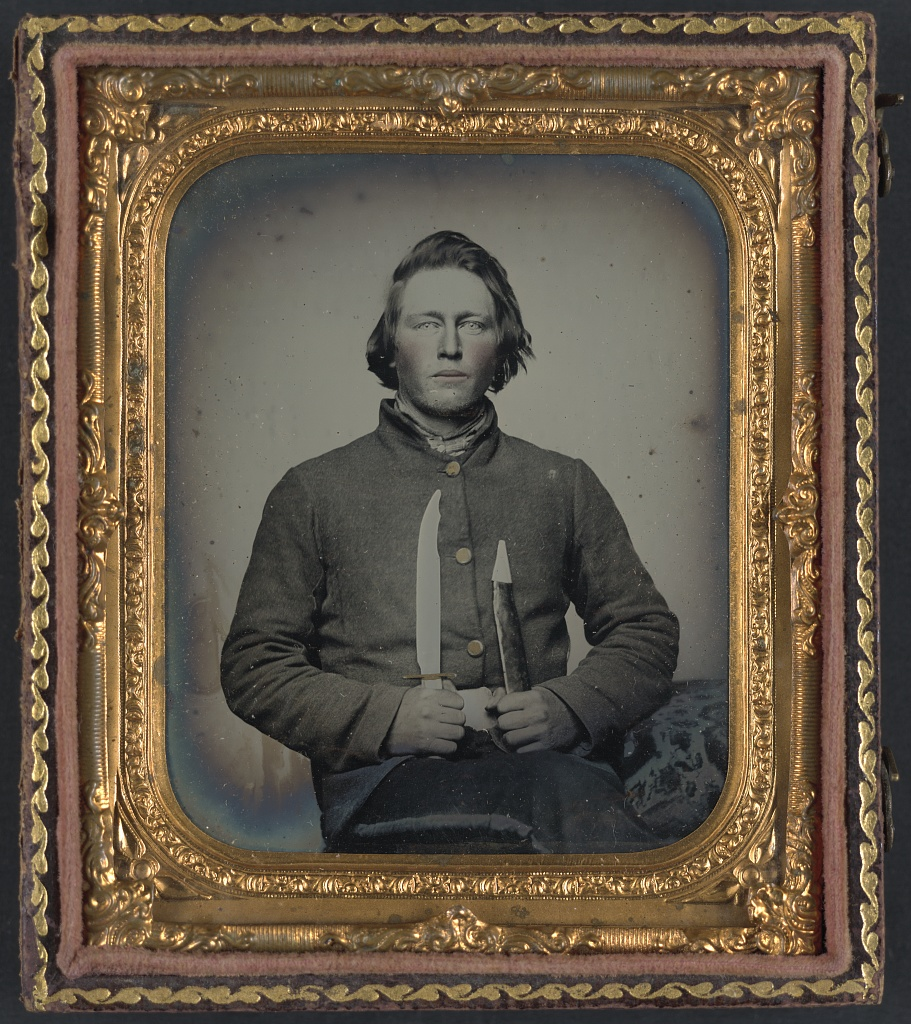 Title: Private Samuel H. Wilhelm of I Company, 4th Virginia Infantry Regiment with knife Abstract/medium: 1 photograph : sixth-plate ambrotype, hand-colored ; 9.3 x 8.1 cm (case)